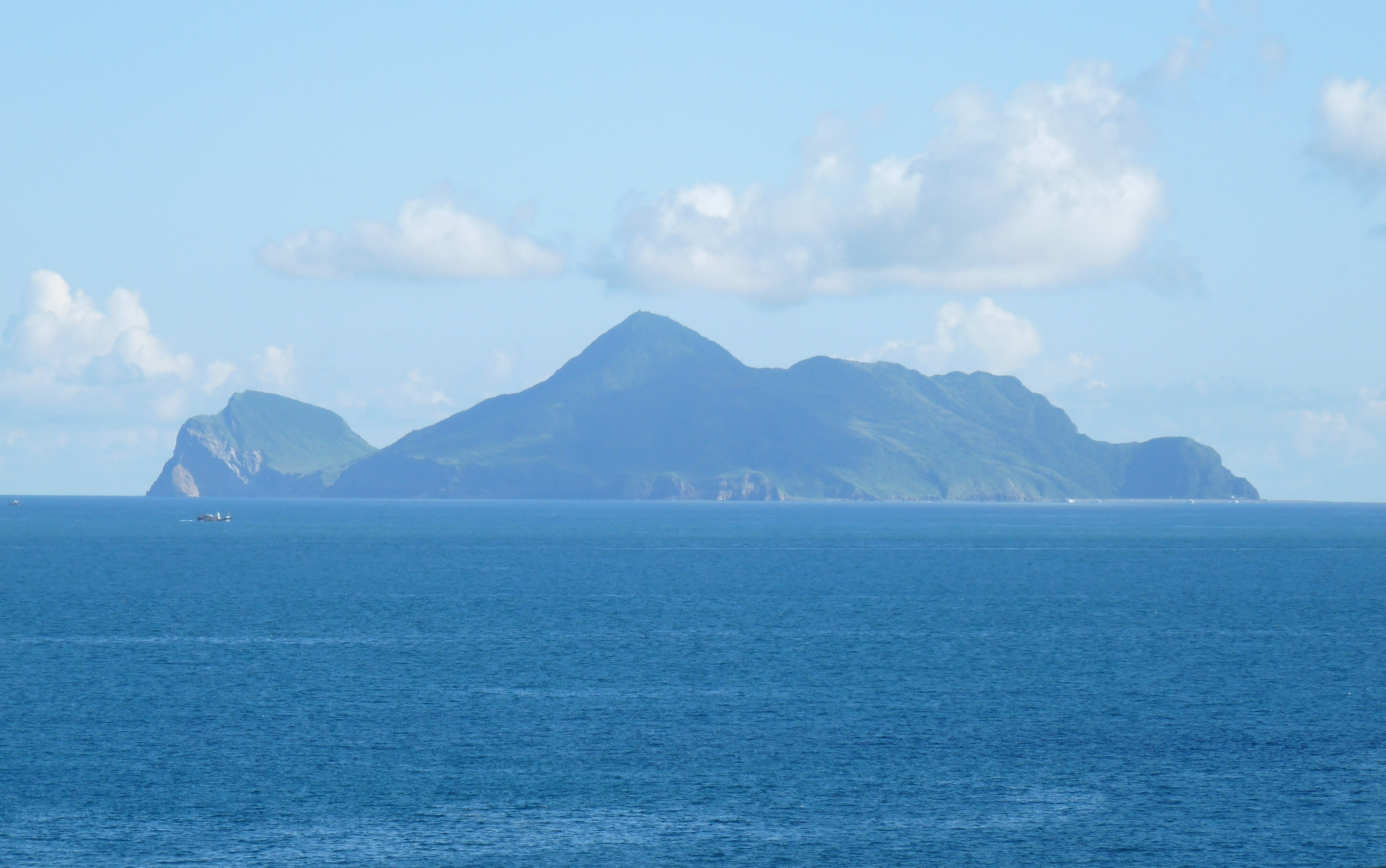 Turtle Island